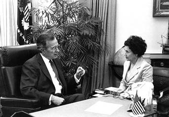 President George Herbert Walker Bush, during his final Oval Office interview on Jan. 19, 1993, with White House correspondent Trude B. Feldman.